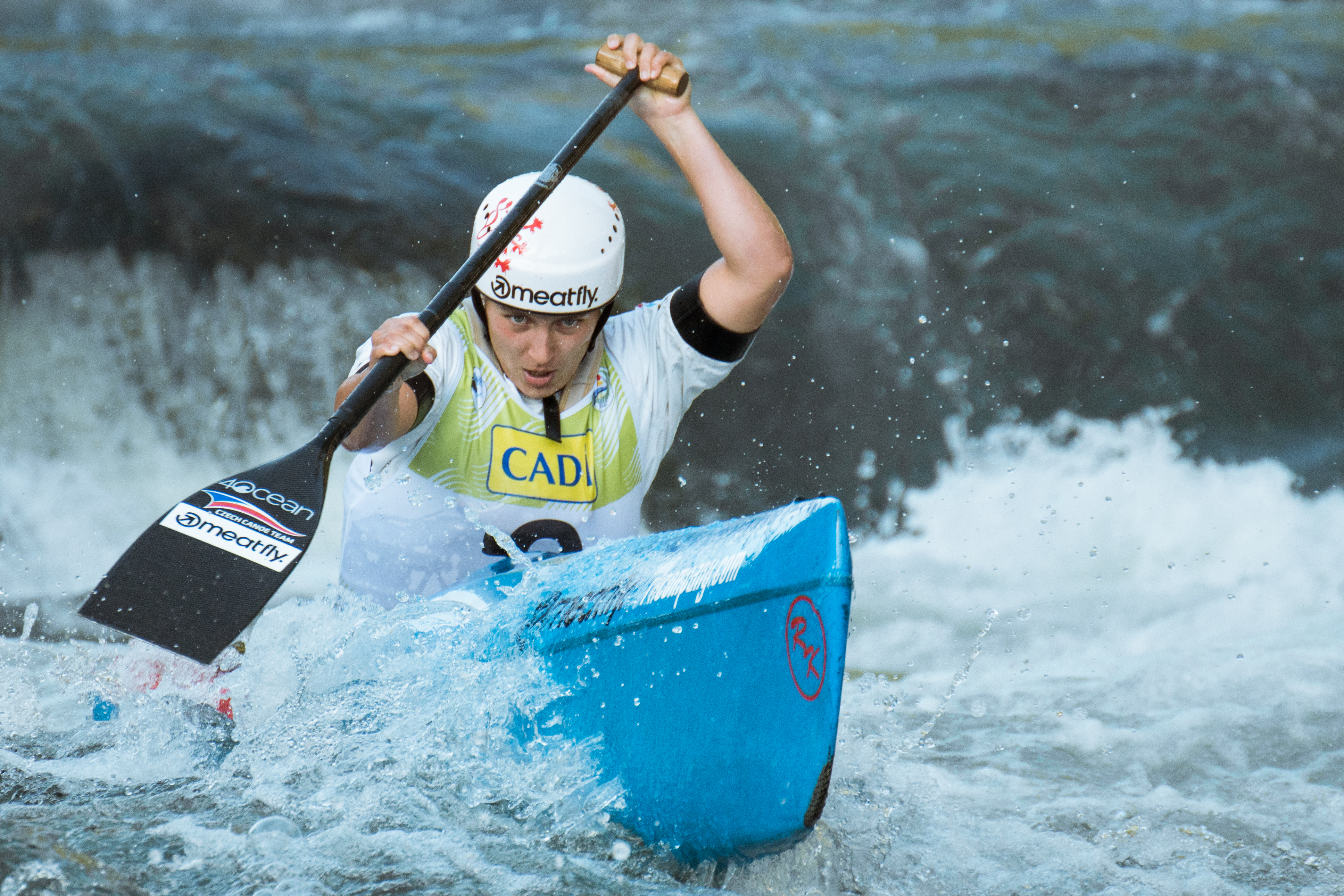 Marie Němcová during the 2019 Canoe Wildwater World Championships in La Seu d'Urgell, Spain.